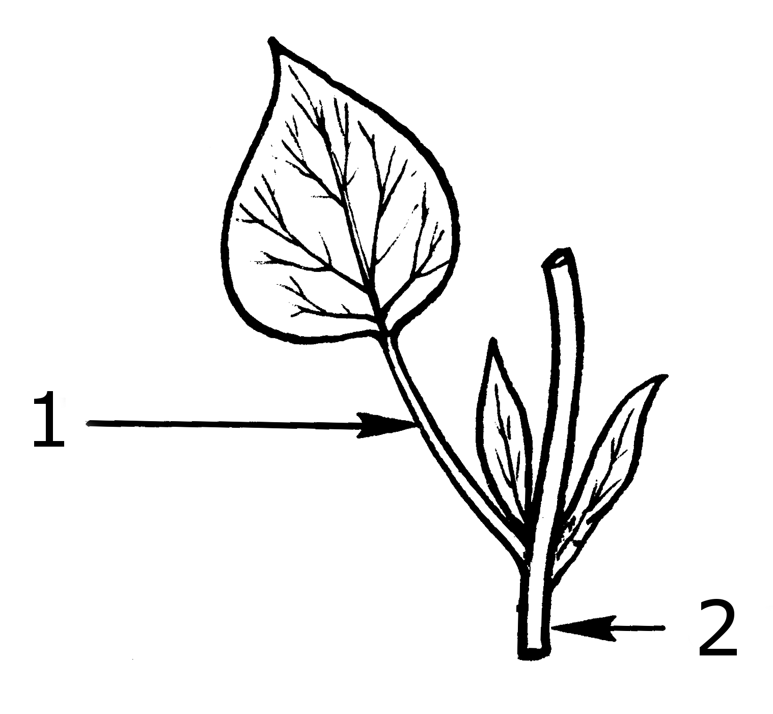 Line art drawing of a Petiole. Petiole Stem